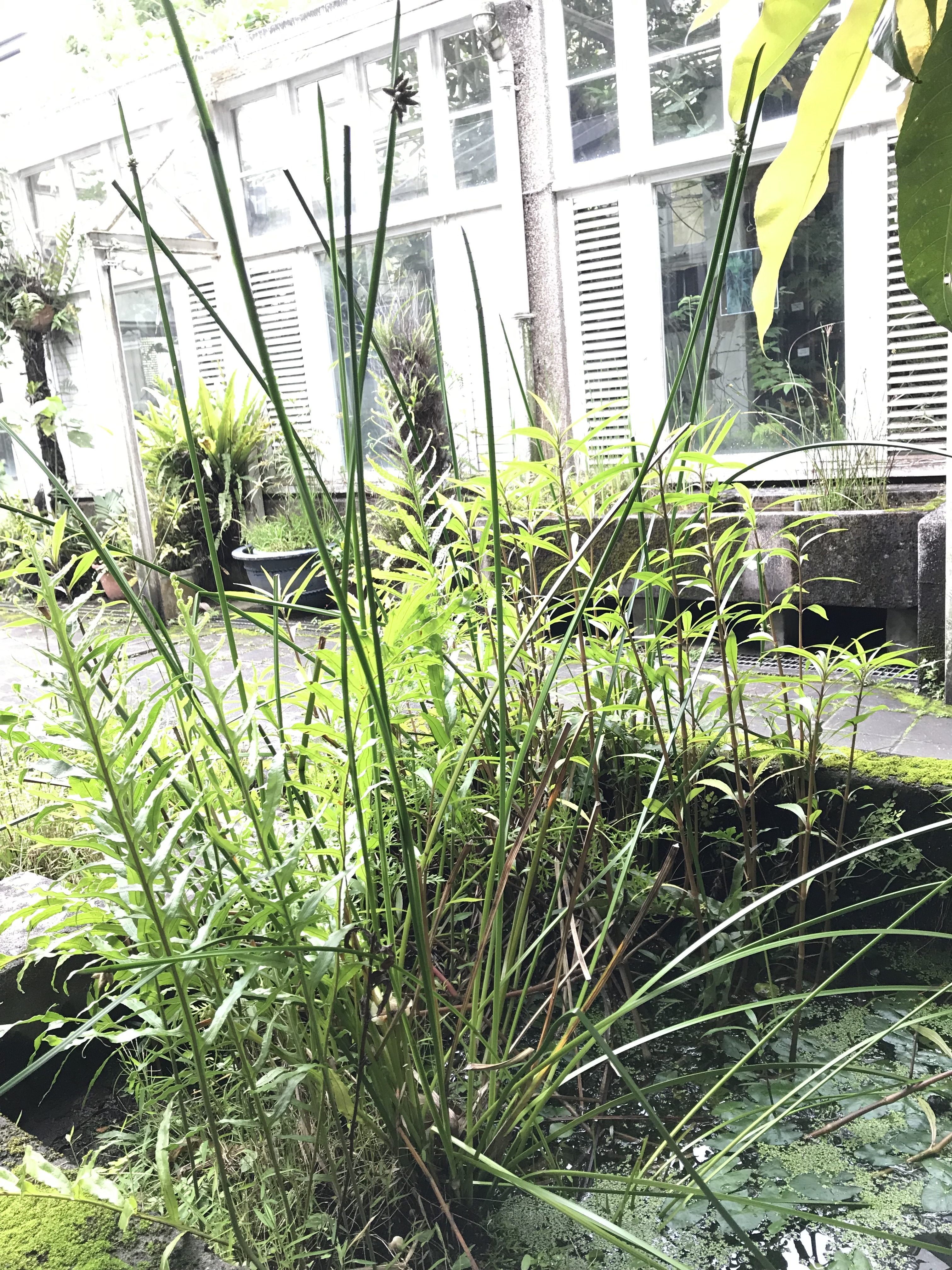 Gonostegia hirta (Bl. ex Hassk.) Miq. (whole plant)